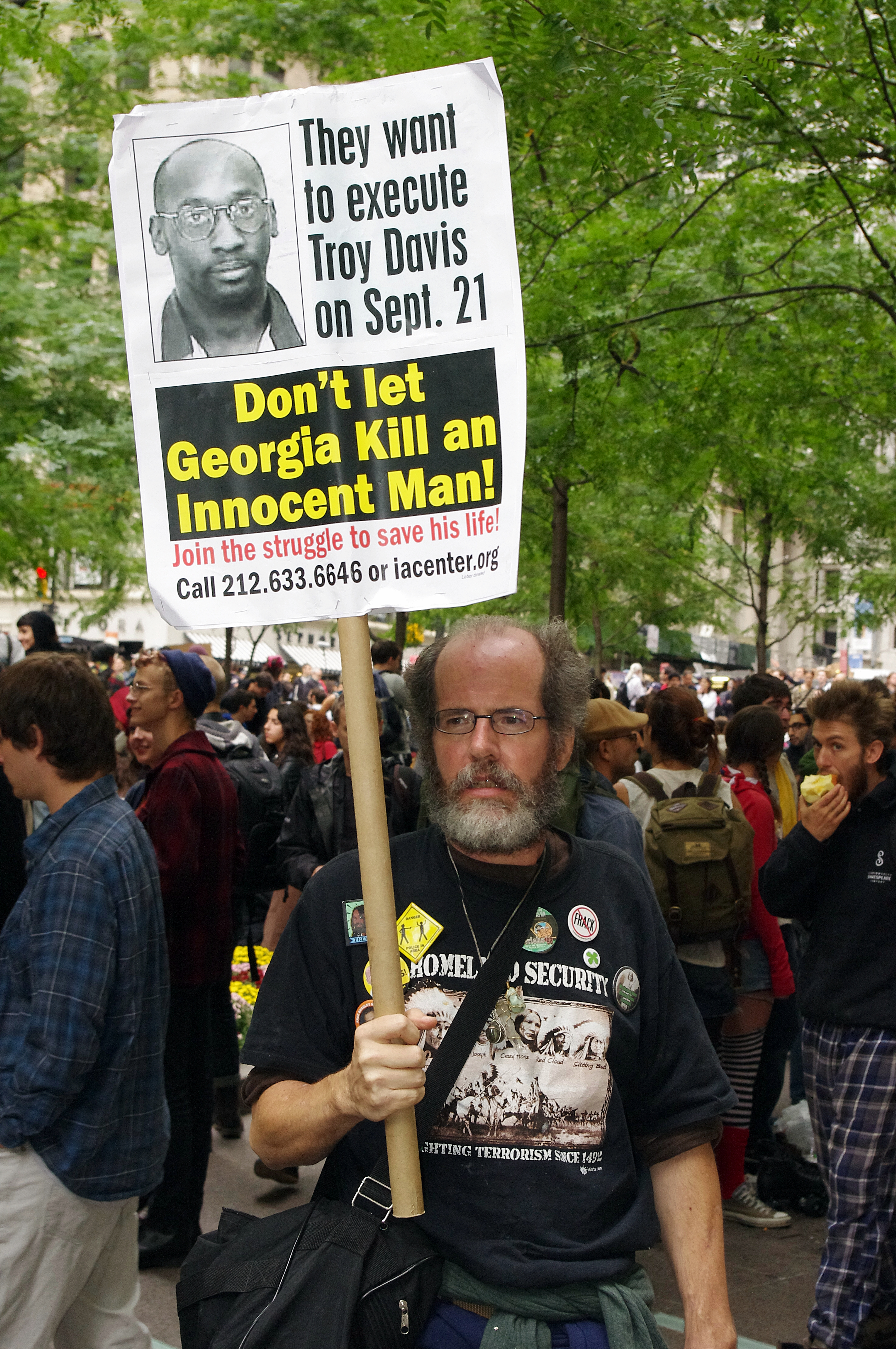 A man protesting the execution of Troy Davis at the Occupy Wall Street protest in New York.